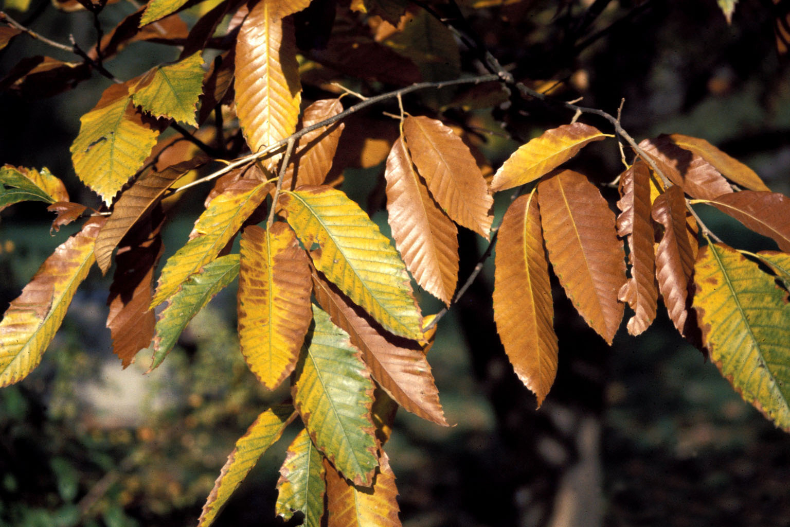 Castanea mollissima foliage in autumn colours